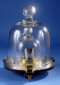 Replica of the national prototype kilogram standard no. K20 kept by the US government National Institute of Standards and Technology (NIST), Bethesda, Maryland, shown as it is normally stored, inside two glass bell jars. This is the primary standard defining all units of mass and weight in the US. It is a polished cylinder made of 90% platinum - 10% iridium alloy, 39 mm (1.5 inches) in diameter and 39 mm high. It is an exact copy of the International Prototype Kilogram (IPK) kept at the International Bureau of Weights and Measures (Bureau International des Poids et Measures) in Sevres, France. It was one of 43 copies which were presented by France in 1889 to different nations as national standards, and became the primary standard of mass for the US in 1893 when the US switched to metric standards. Its exact mass, carefully compared to the IPK every 40 years, is 39 micrograms less than the IPK. The handling of actual prototype kilograms like K20 is kept to an absolute minimum to avoid wear that results in changes in mass; even a single atomic layer of atoms removed from the bottom surface by a slight abrasion during lifting would result in a measureable decrease in mass of 10 μg. So the actual prototype is left in a locked basement vault safe from damage. This is an exact replica fabricated for public display.